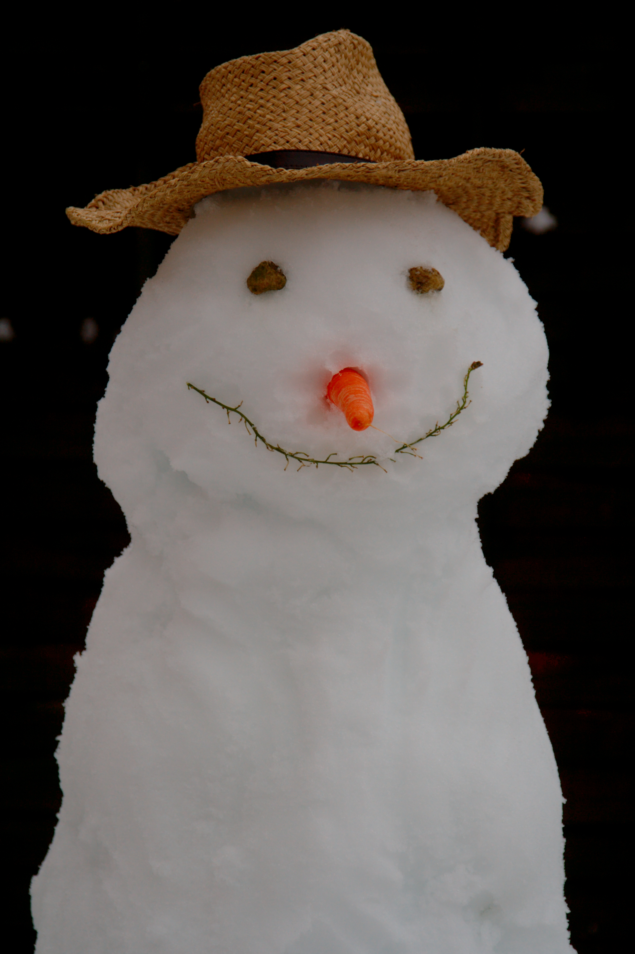 Mr. Keller